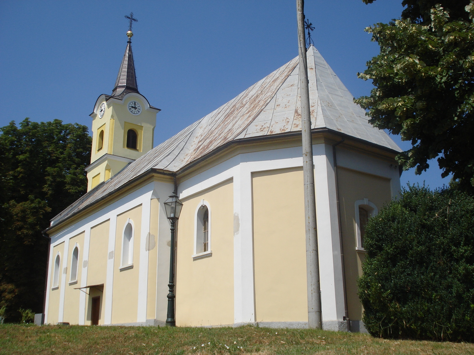 Parish church of St. Elijah the Prophet, Gradina at Virovitica (Croatia), with the Festetić family gravestone